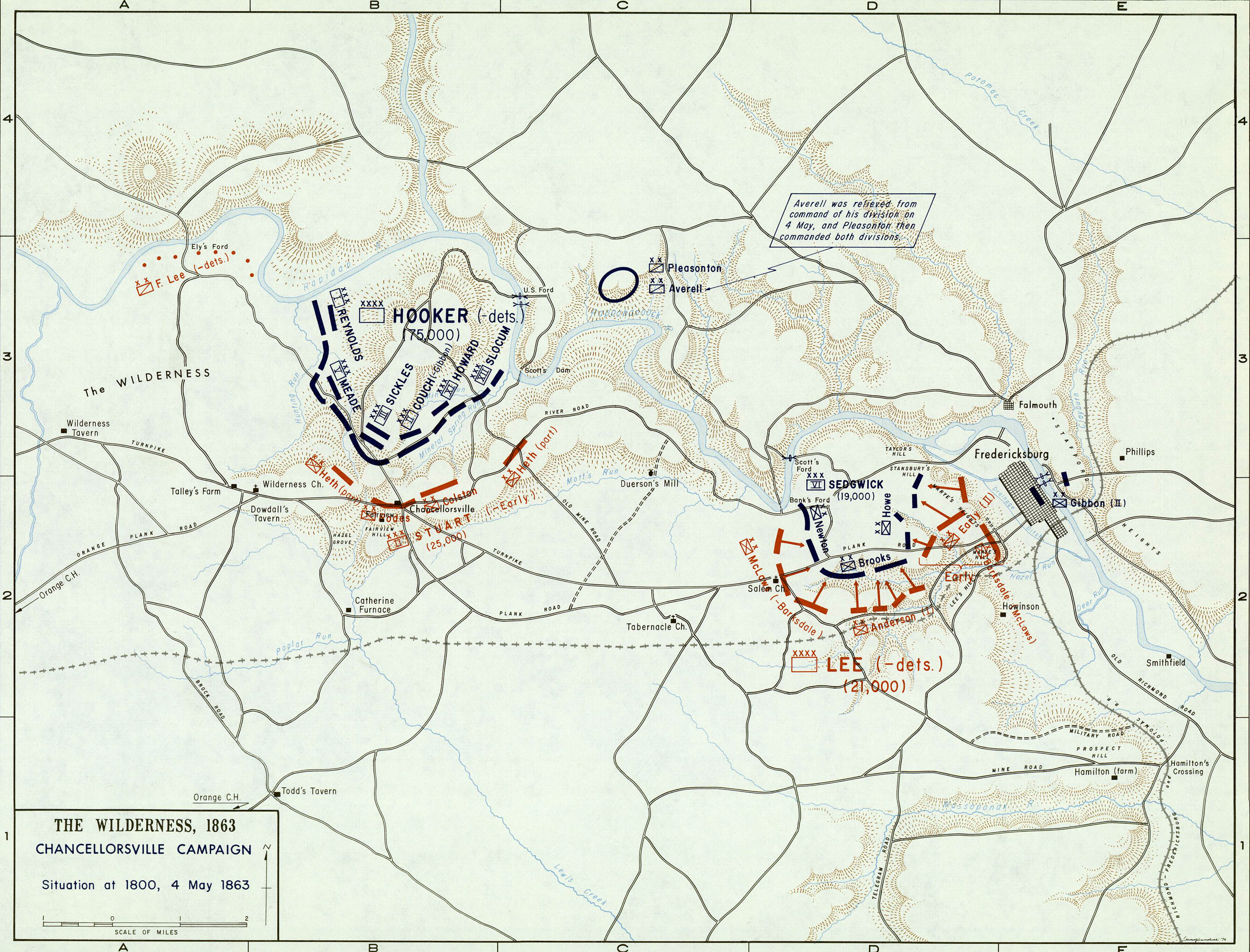 Battle of Chancellorsville, 4 May 1863 (Situation at 1800).